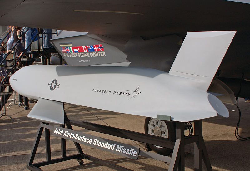 Mockup display of the Joint Air-to-Surface-Standoff-Missile